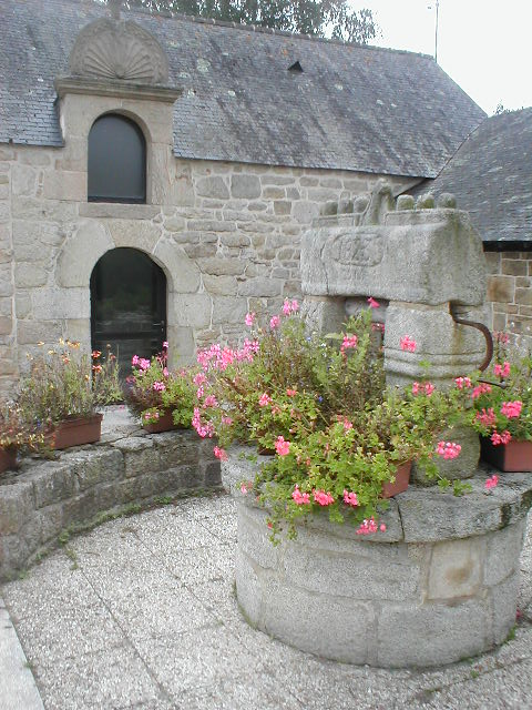 Dated 1823. And scallop shell (coquille de St-Jaques) above a window. This building used to be the presbytery of Guern, before the commune decided to build a new presbytery for the 'recteur', and moved the mairie into this beautiful building.